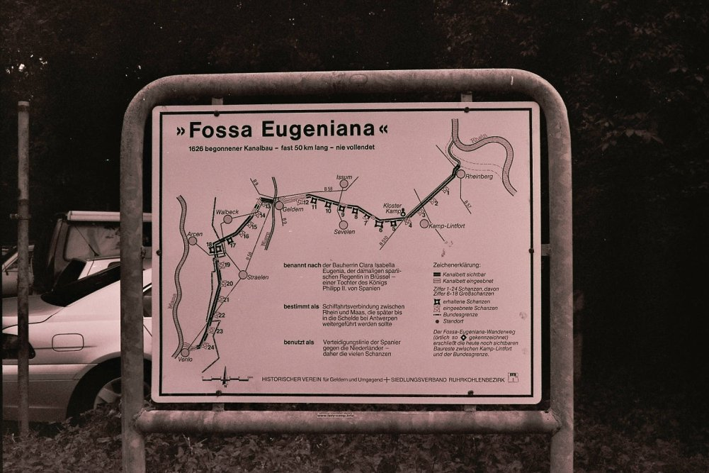 Sign in Kamp-Lintfort with the map of the Fossa Eugeniana between Germany and the Netherlands own foto with sepia-film (Ilford XP2)